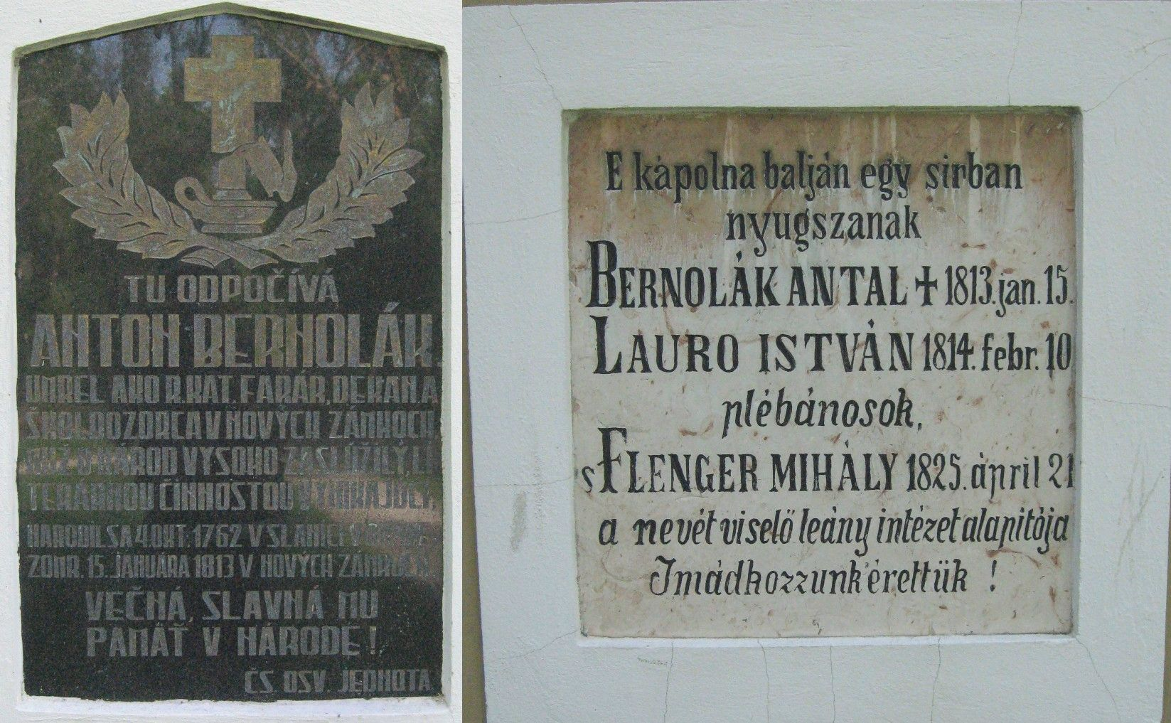 Memorial plaque of Anton Bernolák slovak writer and Flenger Mihály establisher of local school for girls in Nové Zámky at their grave